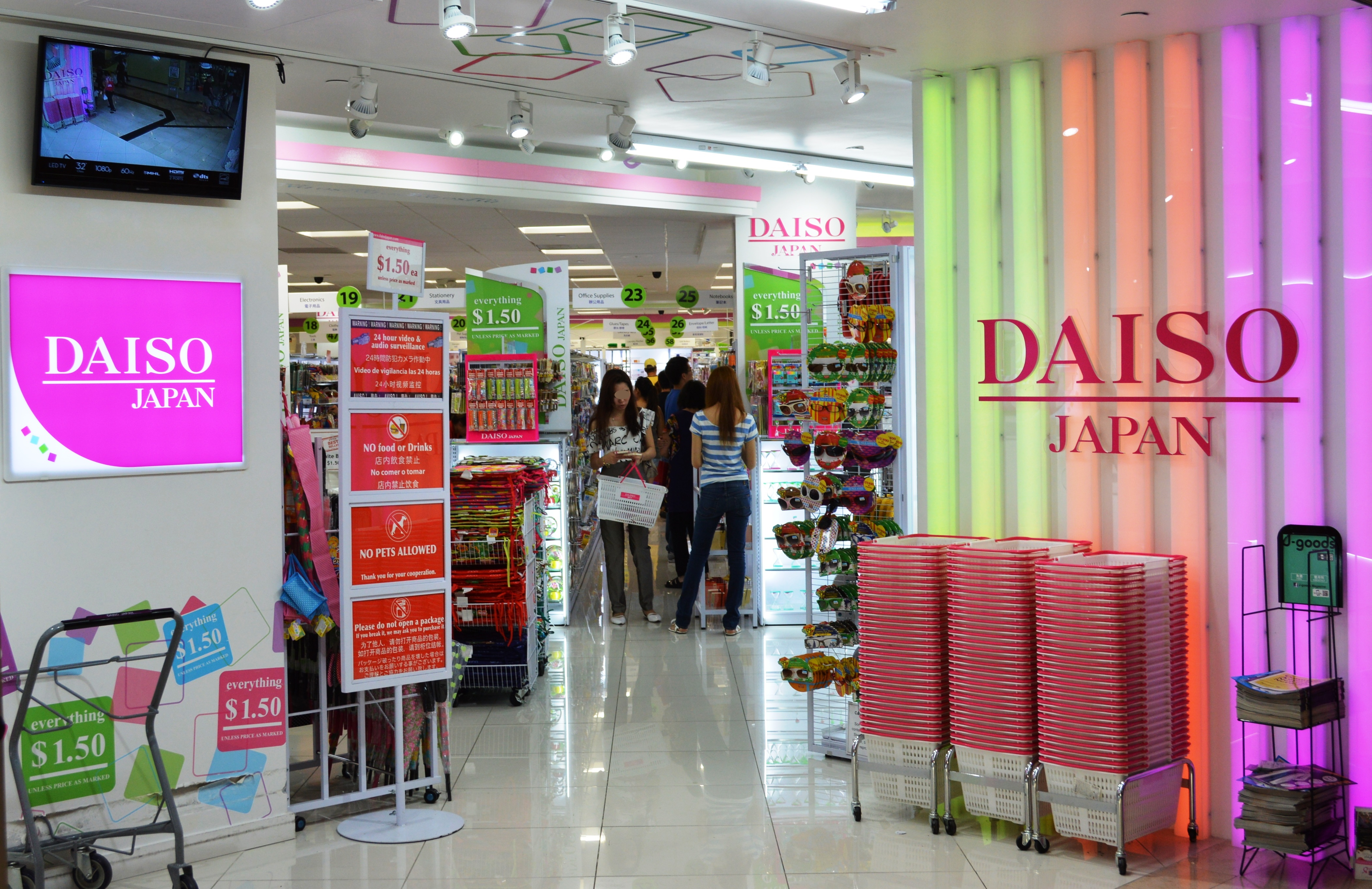 Daiso Japan (operated by Daiso USA) at the San Gabriel Square (also known as the Focus Plaza, nicknamed after its anchor Chinese department store) on Valley Boulevard, San Gabriel, Los Angeles County, California.[1] Check out the warning signs written in four languages: English, Spanish, simplified Chinese and Japanese.